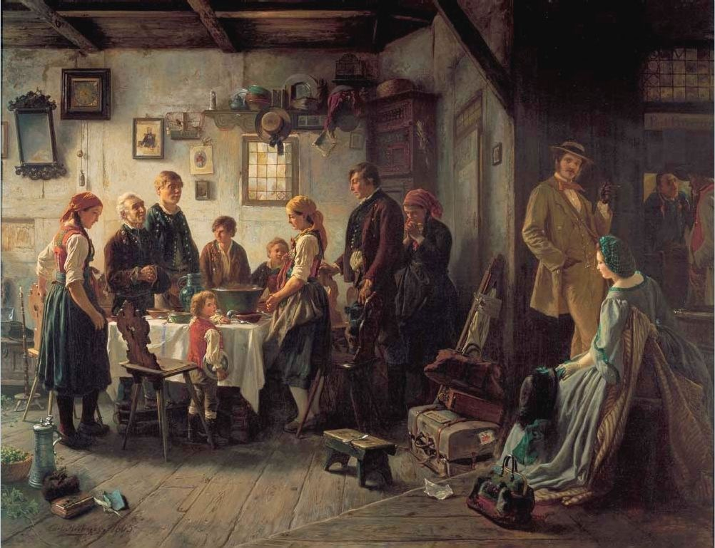 A swabian post office in the black forest